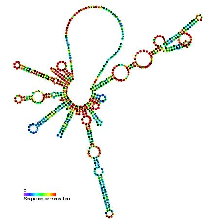 Secondary structure image for OLE non coding RNA (RF01071). Nucleotide colouring indicates sequence conservation between the members of this family.